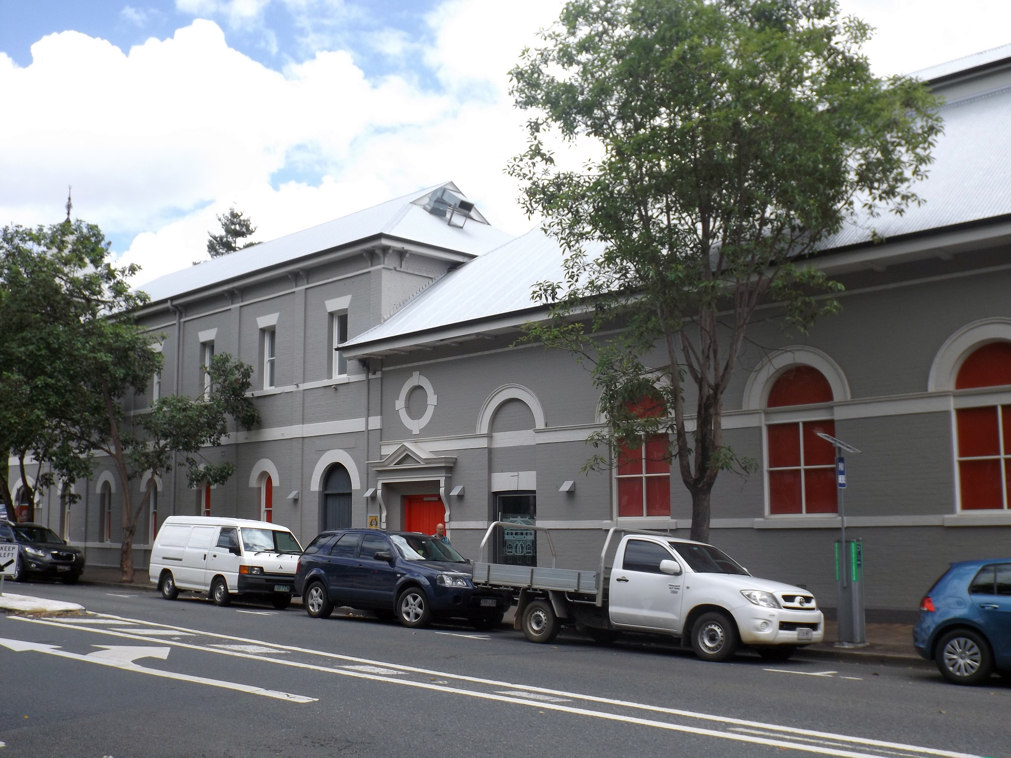 Photo of South Brisbane library at South Brisbane, Brisbane, Queensland, Australia.